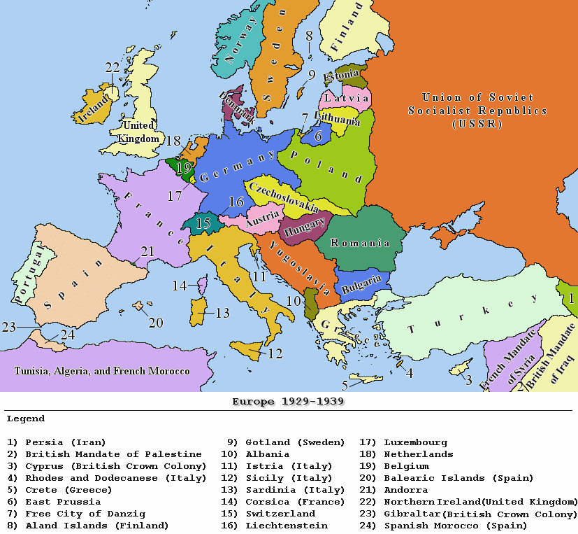 Political map of Europe between 1929 and 1939